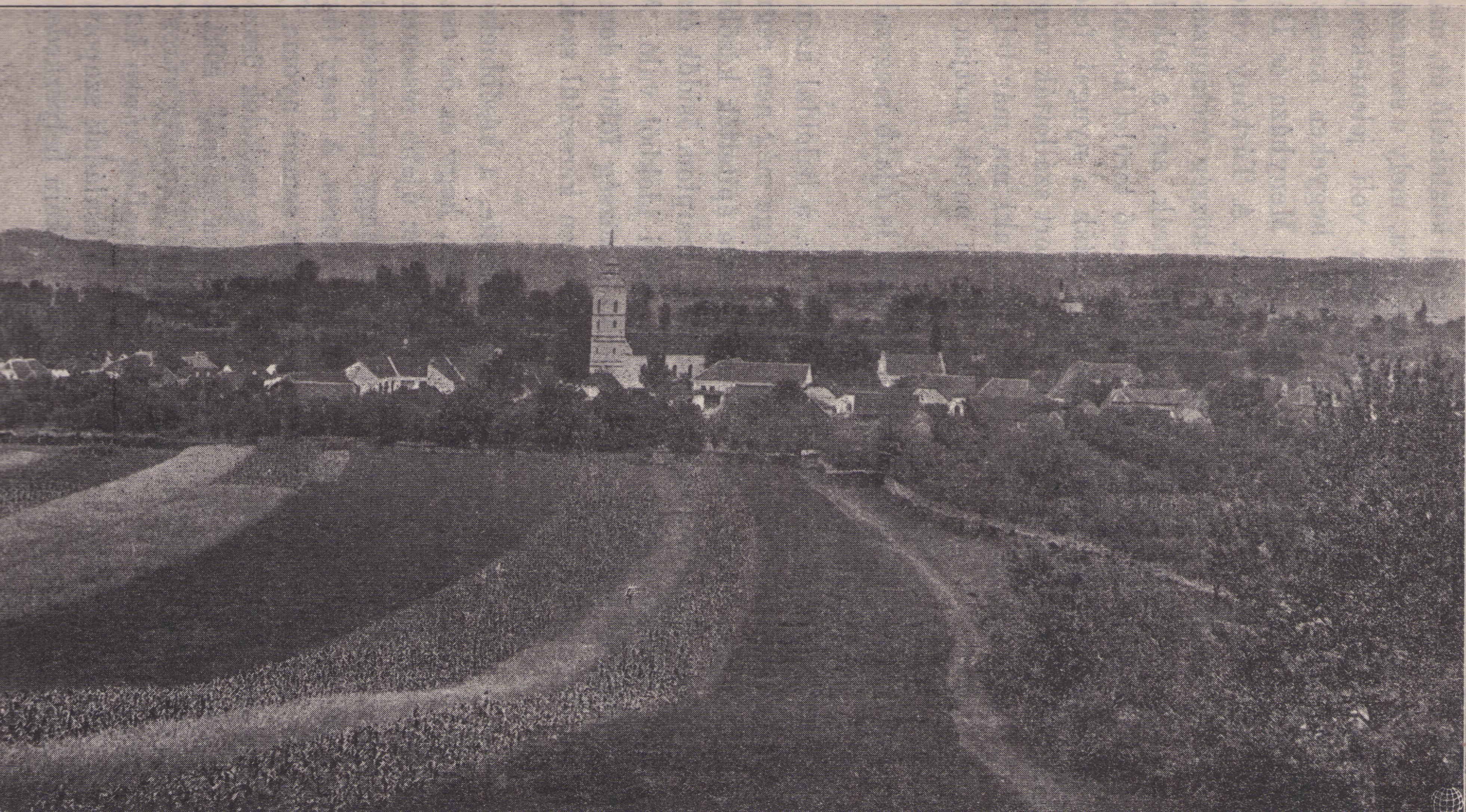 Köröstárkány (ro. Tărcaia), wiev from the reformed cemetery